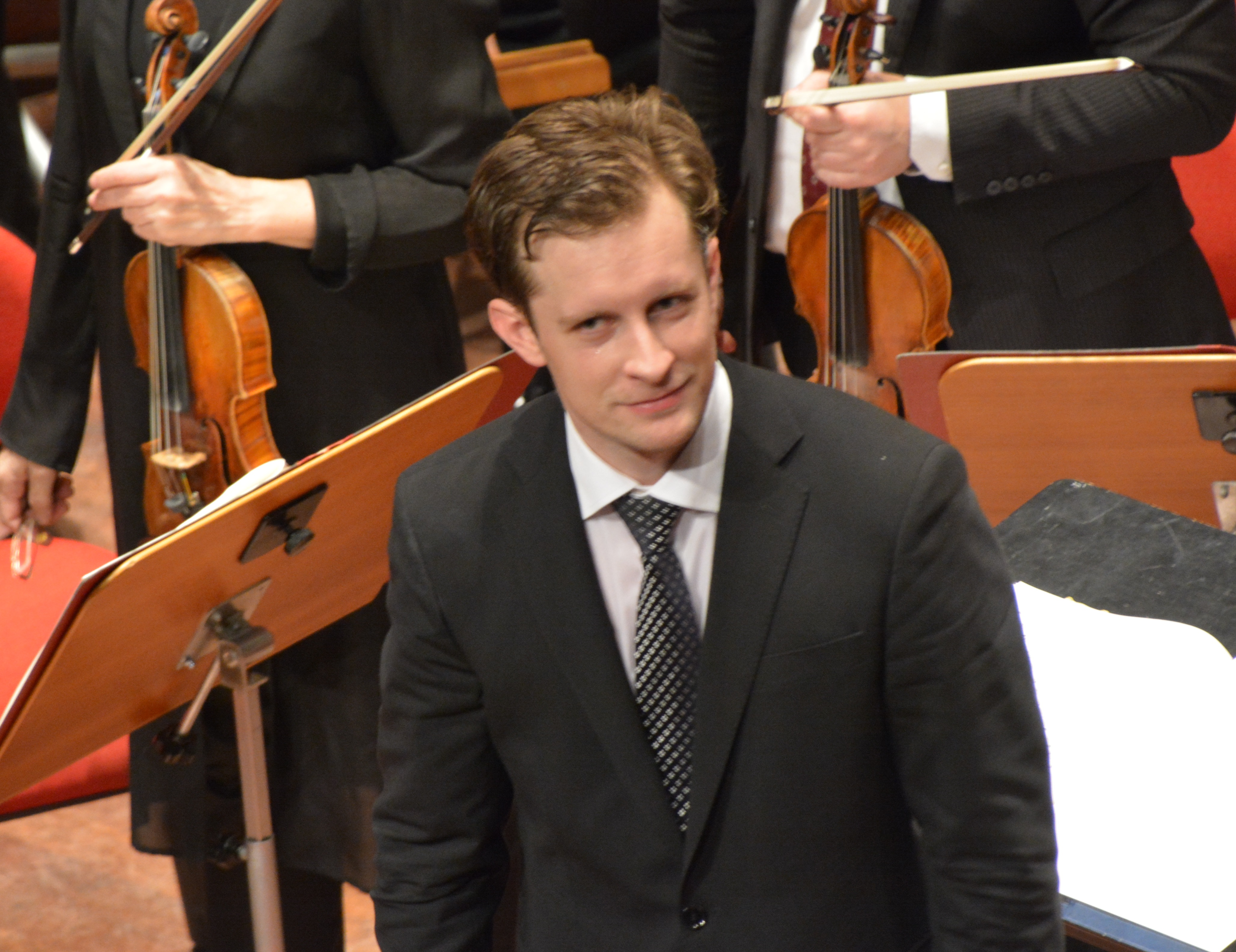 Daniel Blendulf, Swedish director, at Berwaldhallen in Stockholm with Swedish Radio Symphony Orchestra, March 2016